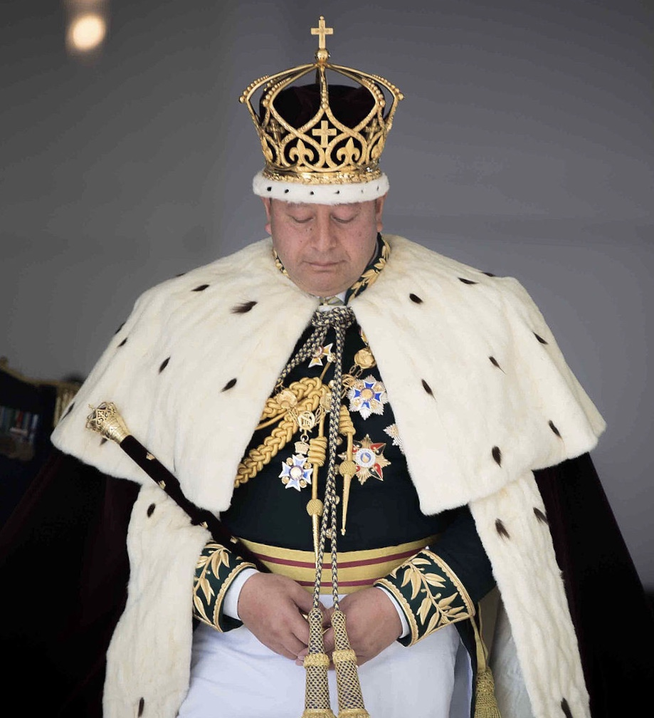 King Tupou VI exits the church after his coronation ceremony in Nuku'alofa, Tonga, July 4, 2015. The U.S. Marine Corps Forces, Pacific Band participated in the coronation ceremonies alongside bands from Tonga, Australia and New Zealand. (U.S. Marine Corps photo by Cpl. Brittney Vito/Released)